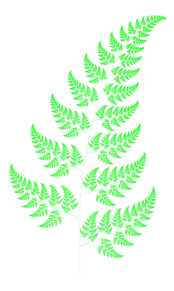 Made by own hands and own C++ program in 3·106 iterations.